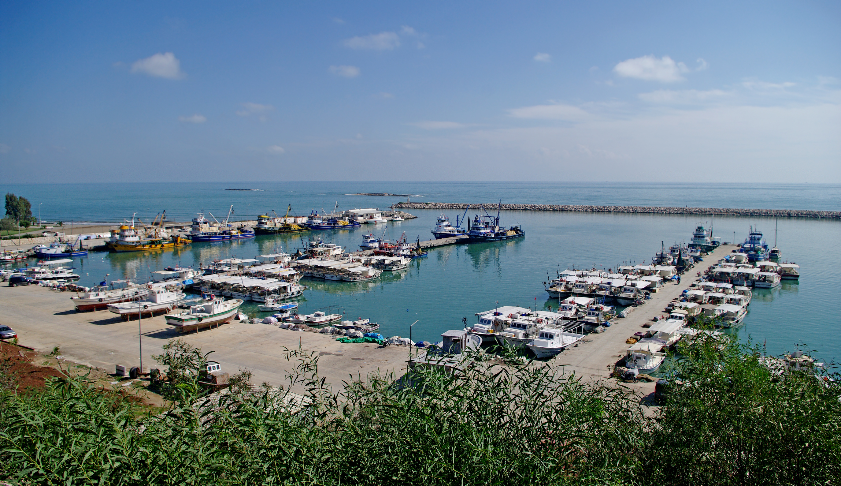 A view of the port for fishing boats in Karataş, Adana - Turkey.